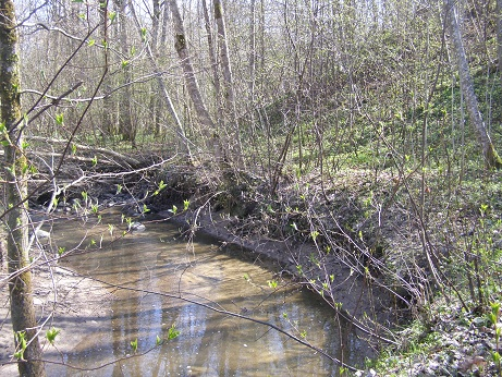 Laiviai mound, 2010, Kretinga district, Lithuania